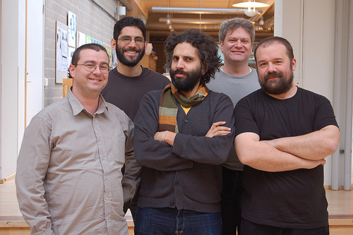 Arduino team in Arduino Summit 2008: (back) Dave Mellis, Tom Igoe; (front) Gianluca Martino, David Cuartielles, Massimo Banzi